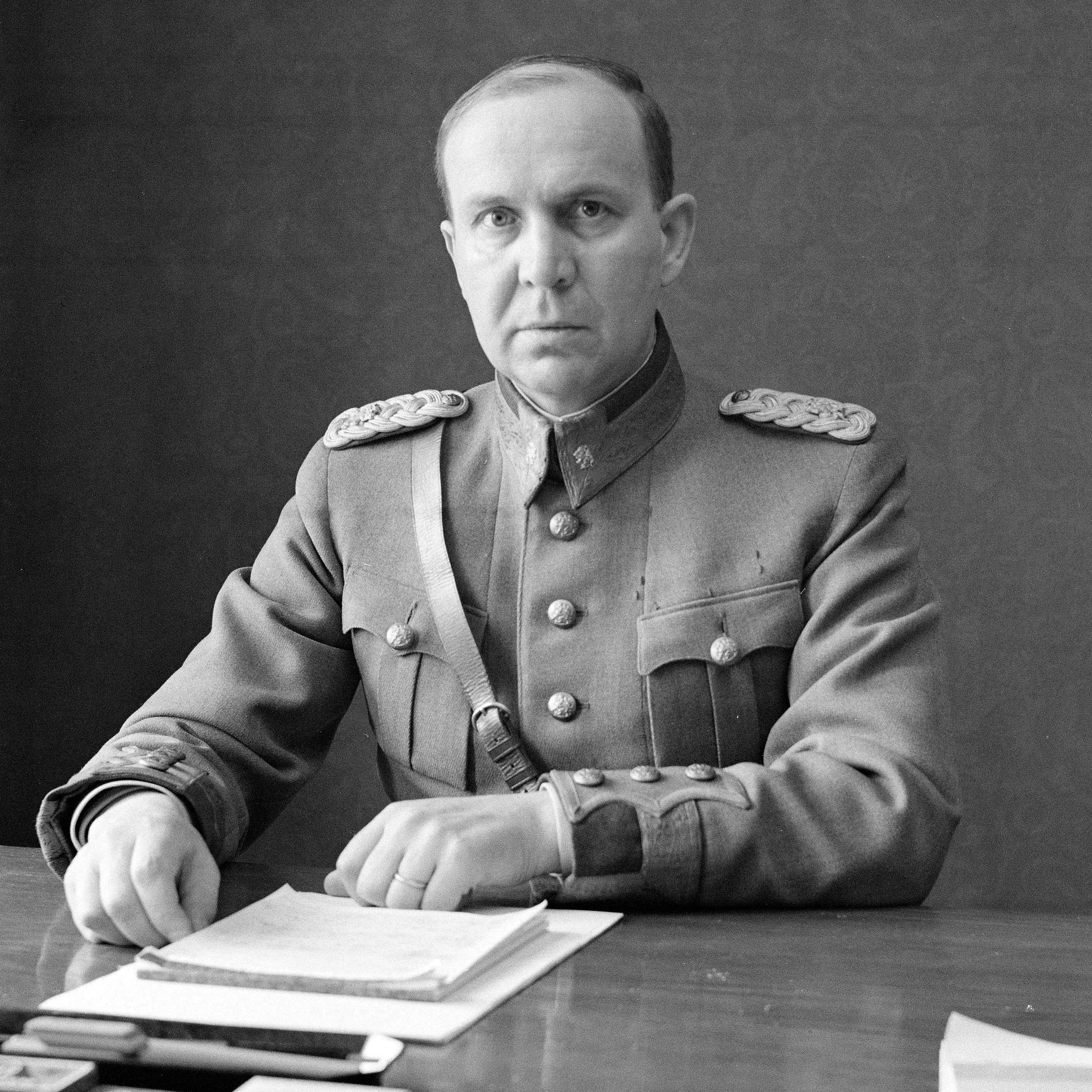 Major General Paavo Talvela